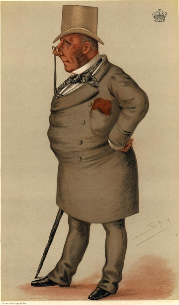 Boscawen, Evelyn (Viscount Falmouth) (1819-1889) "Never Bets".